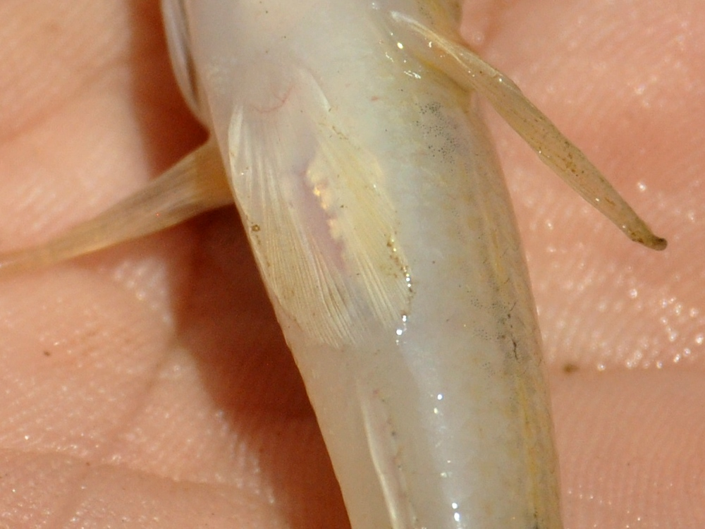 Tank goby, Glossogobius giuris, ca 52 mm SL. United ventral fins. From Banyumas, Central Java, Indonesia.